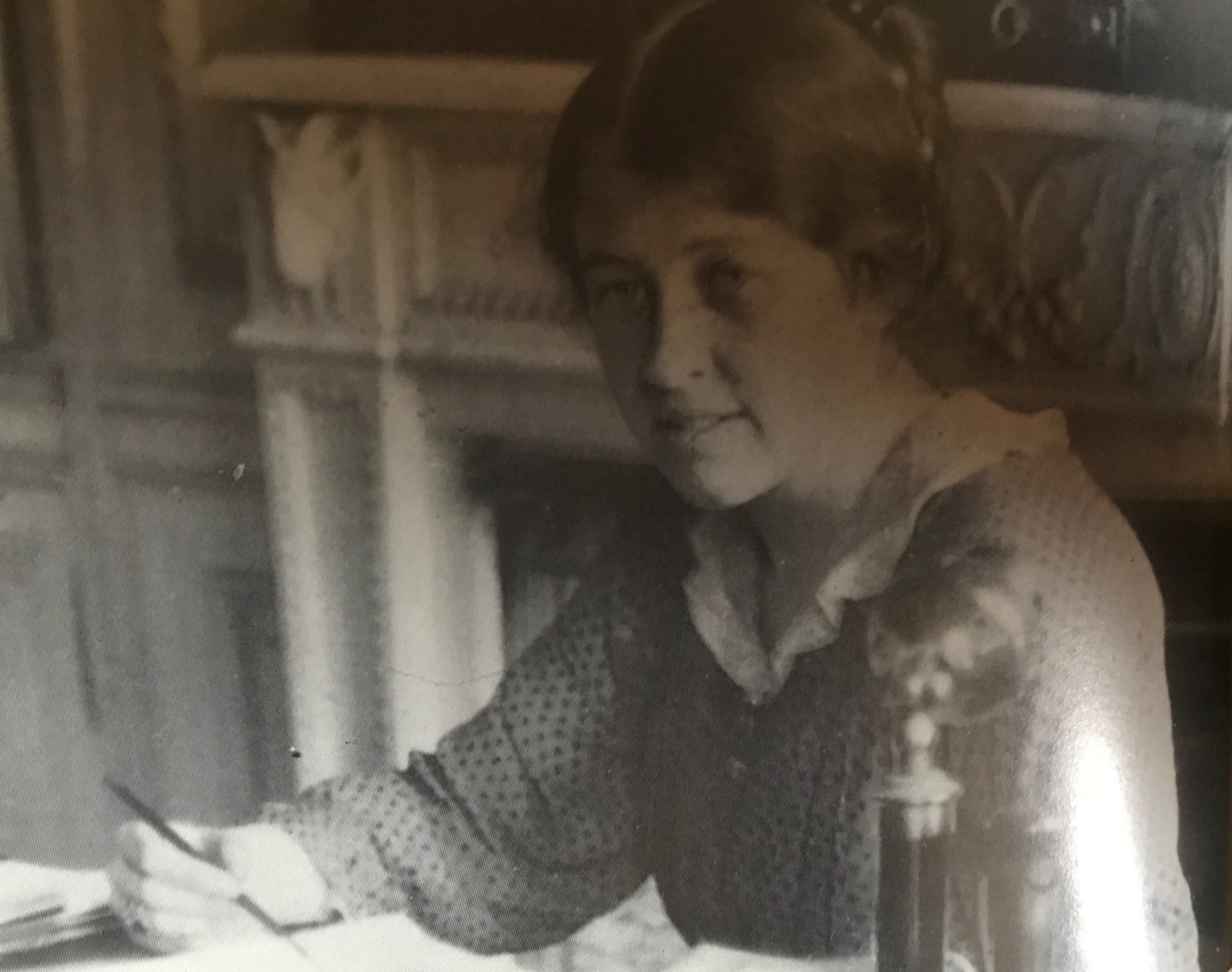 Katherine Laird Cox, most likely at Cambridge 1906-1910